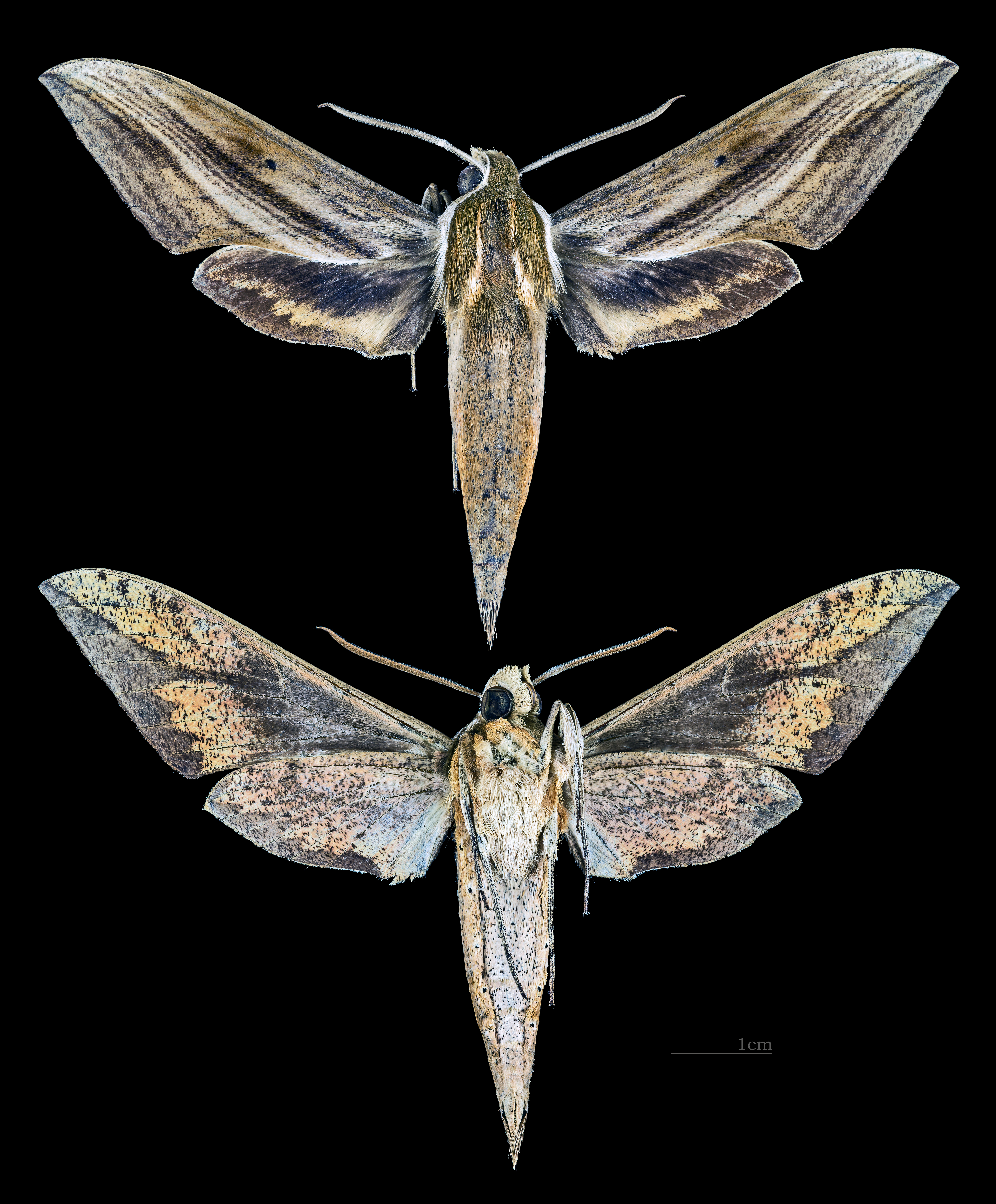 Xylophanes josephinae - Two views of same specimen Collection of the Mathematician Laurent Schwartz